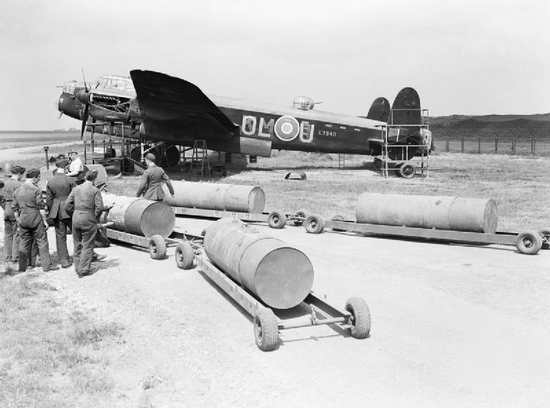 IWM caption : A tractor-drawn train of 4,000-lb Mark I HC bombs ('cookies') pauses on its journey from the bomb-dump at Mildenhall, Suffolk, while groundcrew chalk appropriate messages on them. In the background an Avro Lancaster Mark I, L7540 'OL-U', of No. 83 Squadron RAF's Lancaster Conversion Flight, normally based at Scampton, Lincolnshire, undergoes repairs.